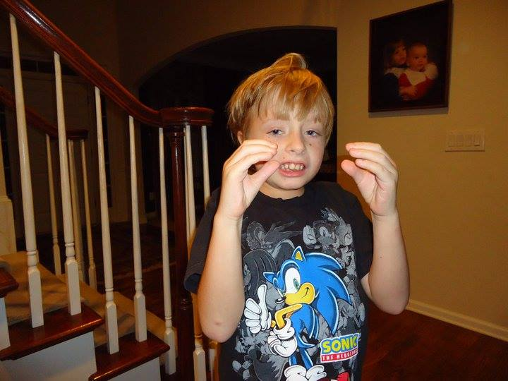 An autistic child performing a stimming movement.